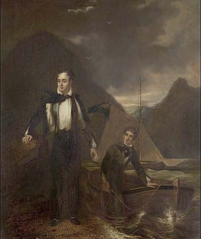 Lord Byron with his man servant Robert Rushton